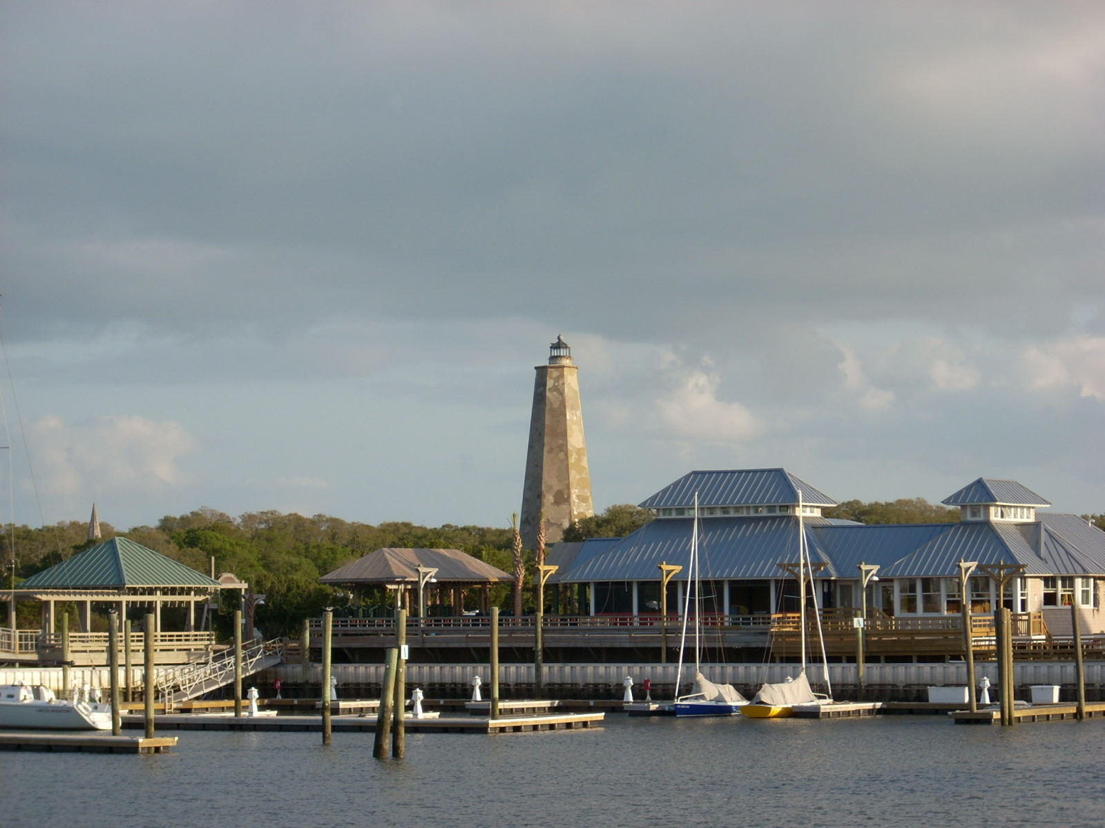 Bald Head Island, North Carolina, marina with "Old Baldy" in the background